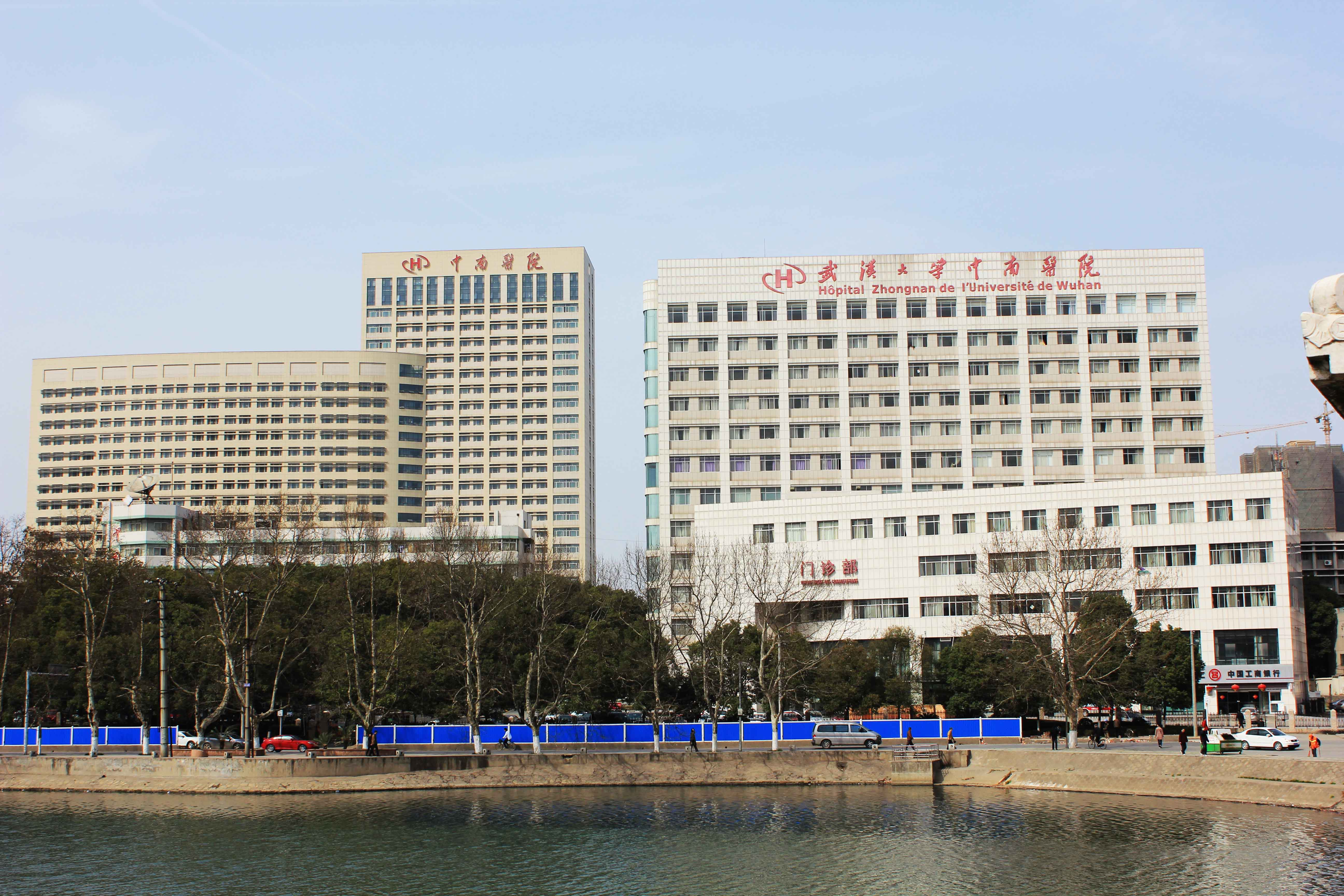 Wuhan University Zhongnan Hospital